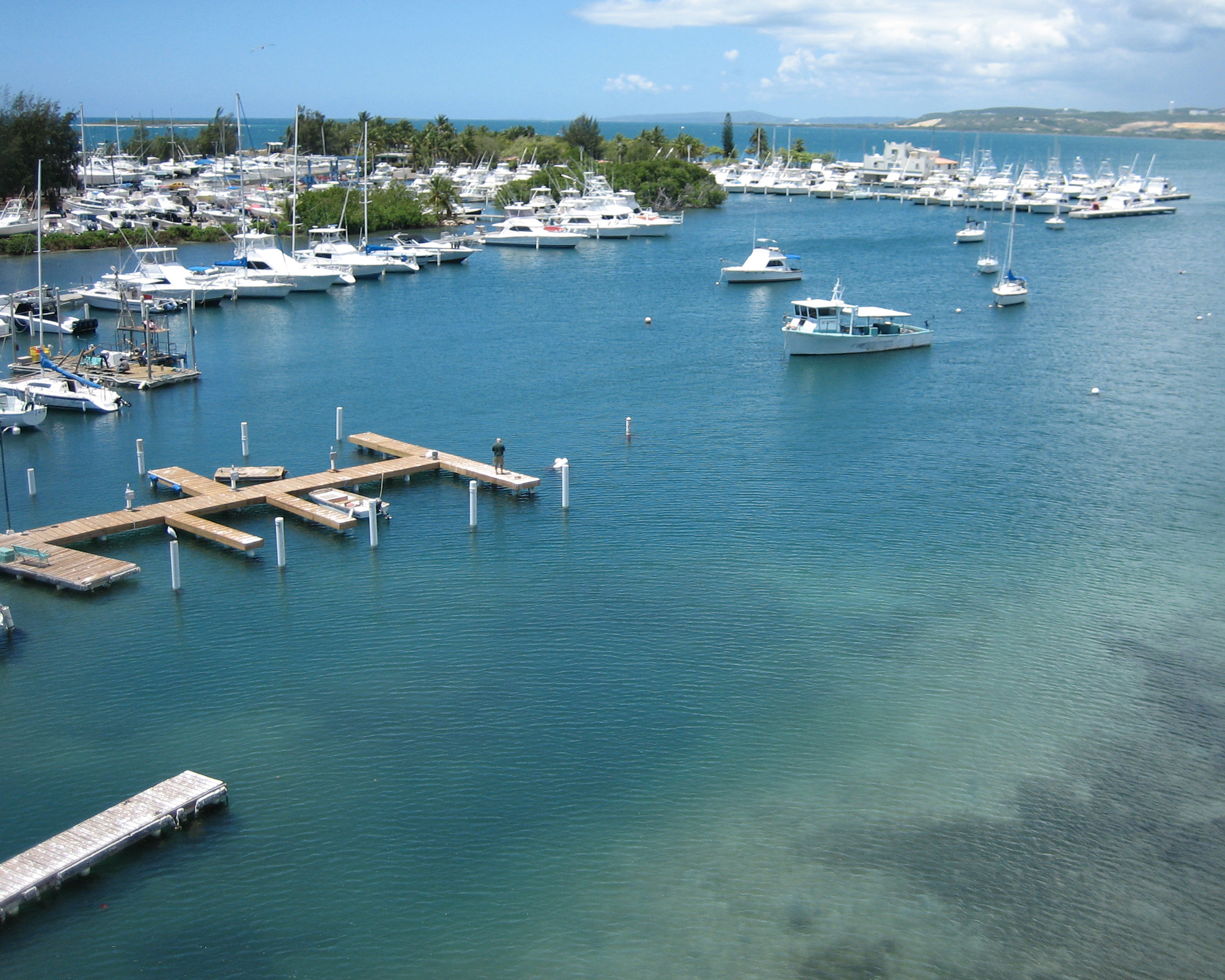 Ponce (PR) Marina, Yatch Club, by La Guancha Boardwalk